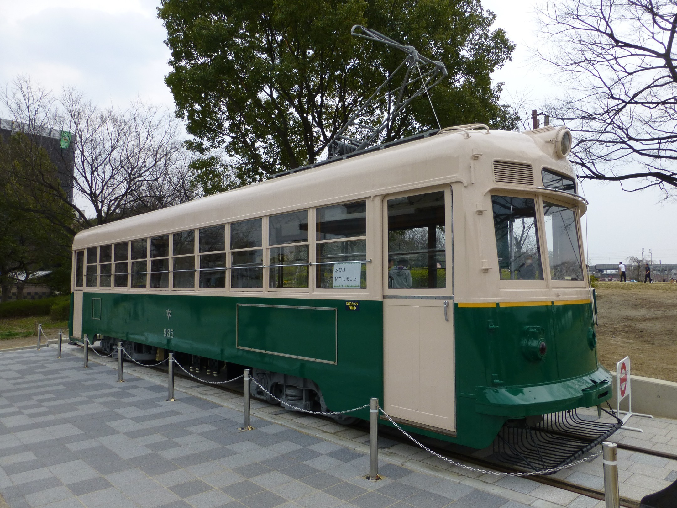 Kyoto Municipal Tramway 935 of type 900, preserved at Umekoji Park.